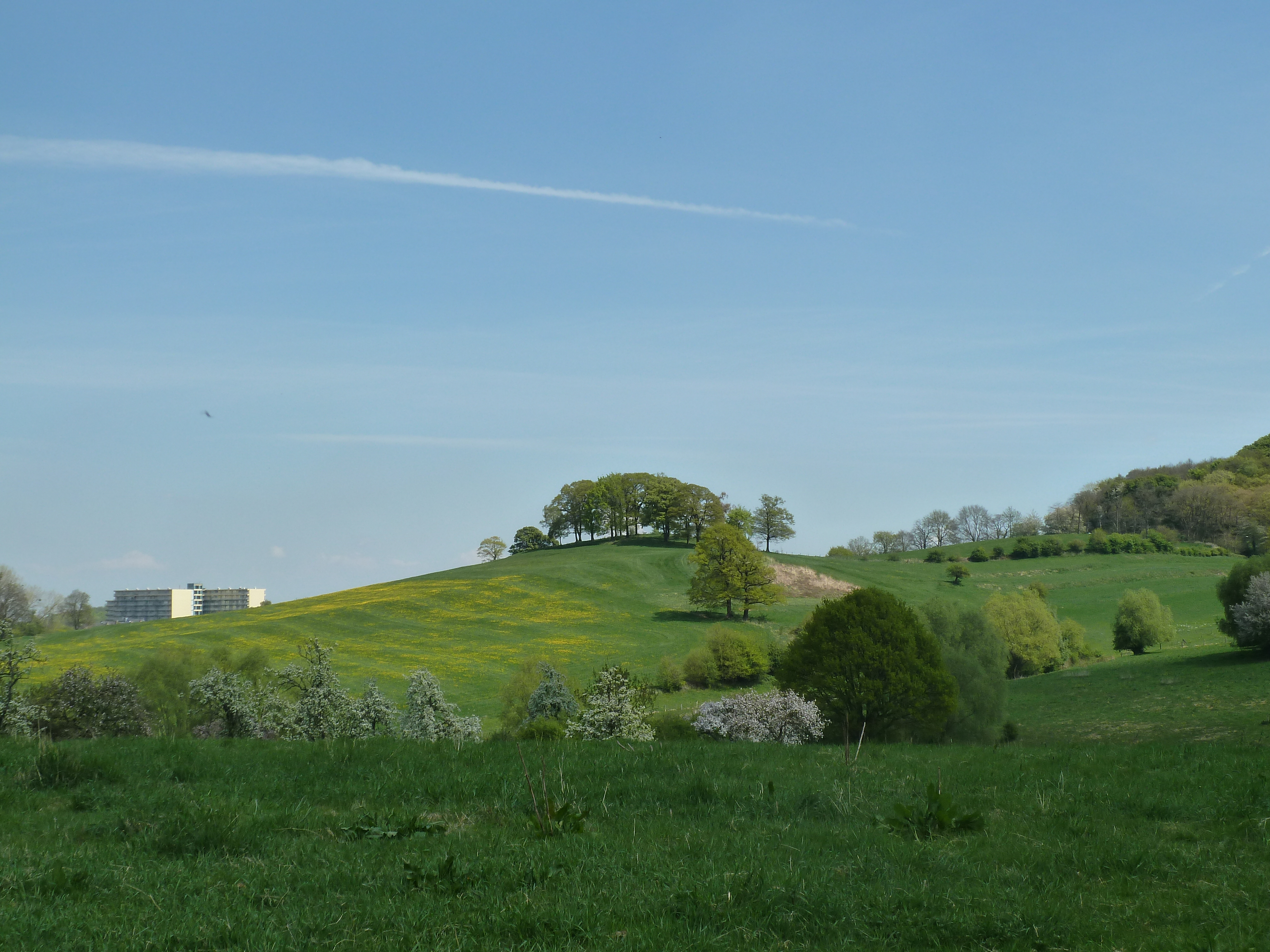 Bokkebosje, near Vaals, Limburg, the Netherlands